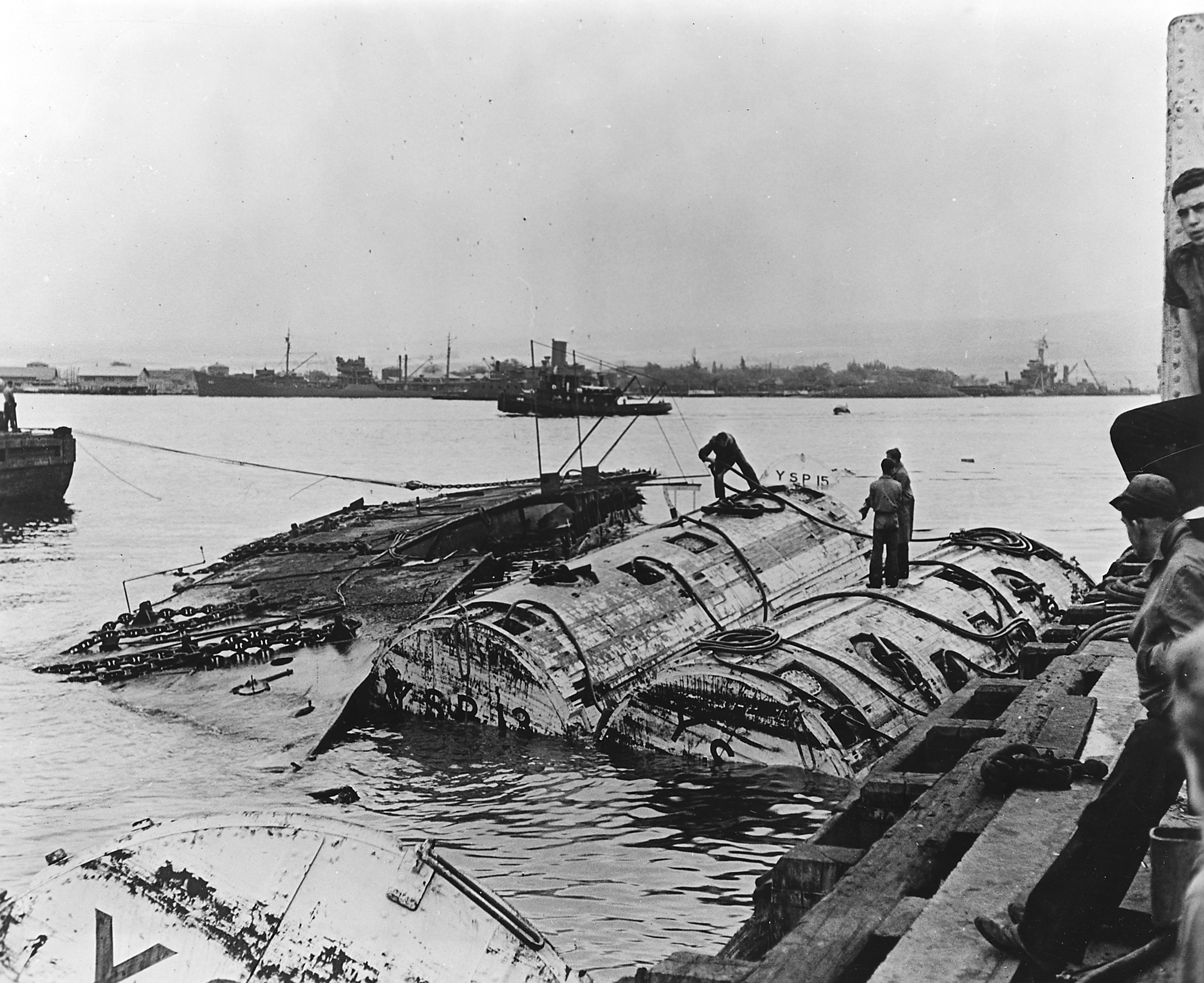 The U.S. Navy minelayer USS Oglala (CM-4) under salvage alongside 1010 Dock, Pearl Harbor, Hawaii, circa 11 April 1942. YSP-13 and YSP-15 are among the salvage pontoons being used to try to raise Oglala's capsized hull. An oiler and the sunken USS West Virginia (BB-48) are in the background.